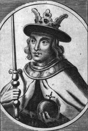 Harald 3. Hen fik gennemført et kongeligt monopol på at fremstille mønter.